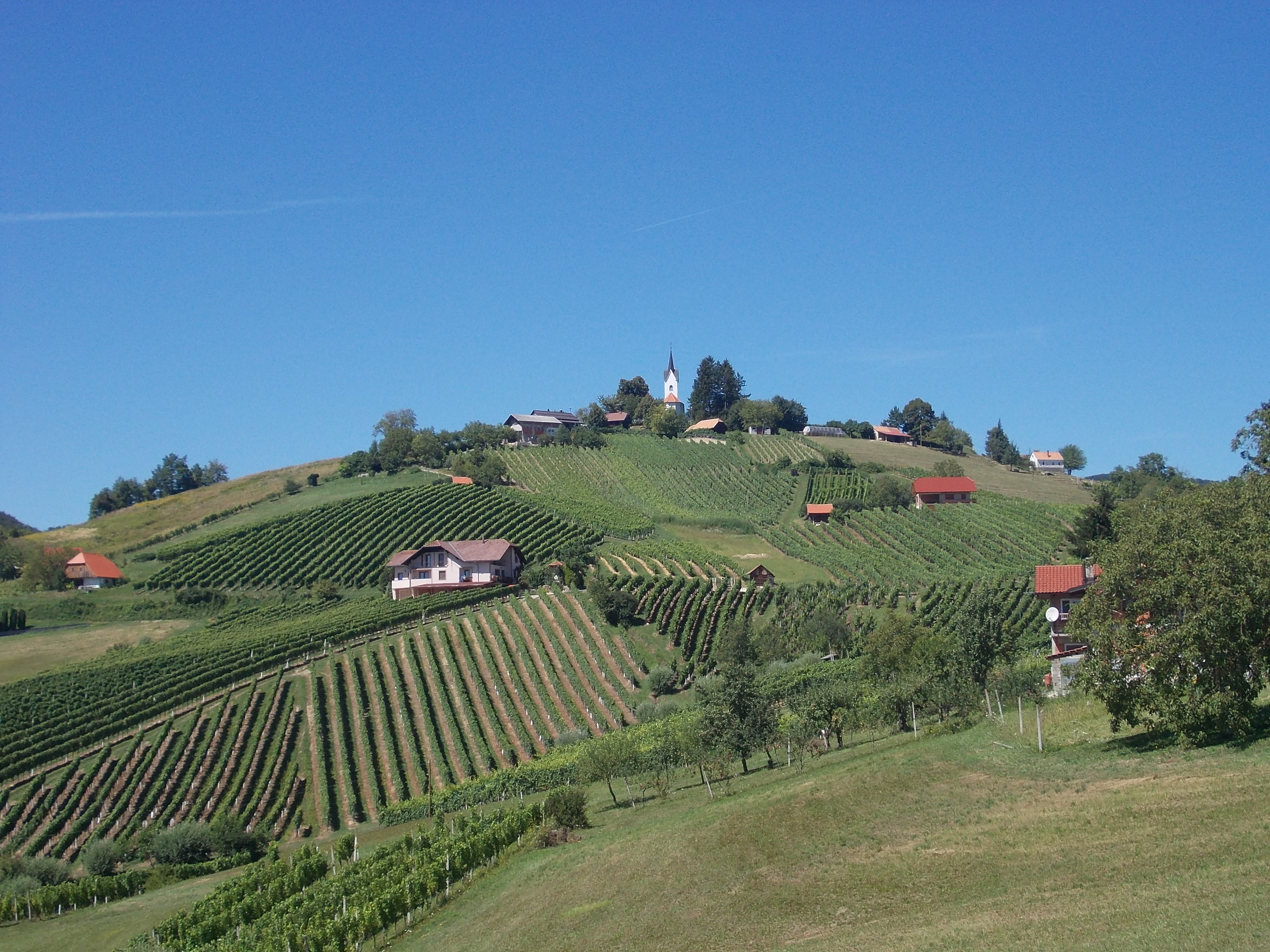 St. Vitus's Church (Bizeljsko)